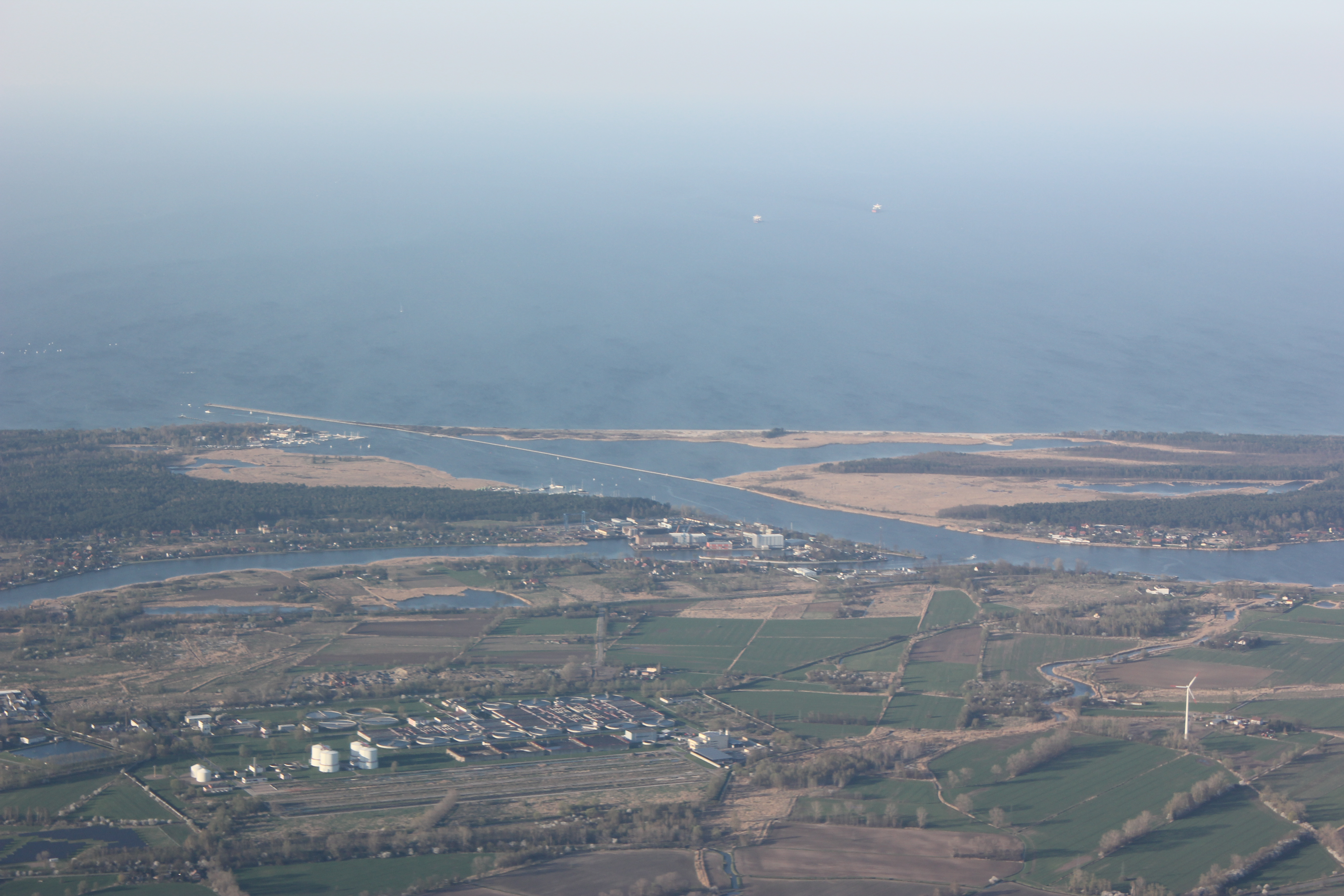 Gdańsk - the Wisła Śmiała river - aerial view